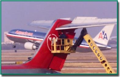 Routine maintenance on an MD-83 tailplane, from FAA website. Original caption: "Photograph showing maintenance on the horizontal stabilizer of a Northwest Airlines MD-83 aircraft. An American Airlines aircraft is in the background."